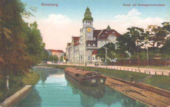 Old Canal with Mechanical school 1914